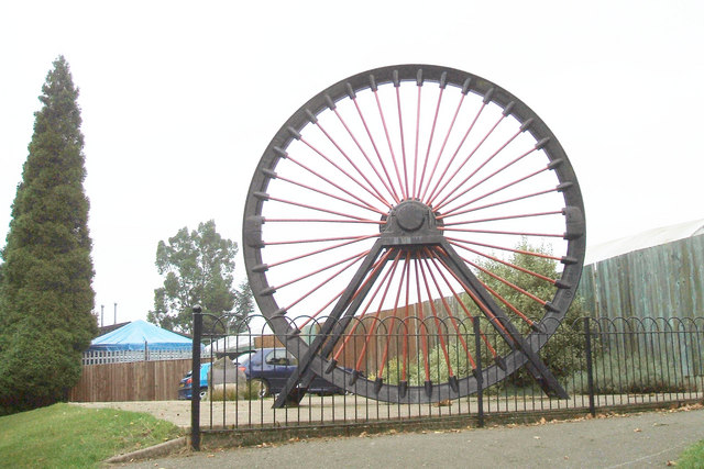 Newdigate Colliery Winding Wheel The Newdigate Colliery Winding Wheel was donated to the council by the National Coal Board, and was in use until the mine's closure on 5th February 1982 - the last mine in the borough to close. It was erected in tribute to local miners in Bedworth's Miners Welfare Park by Nuneaton and Bedworth Borough Council and was officially unveiled on 27th March 1986. Information taken from nearby commemorative plaque, just visibly behind the lower left of the wheel in this photo.